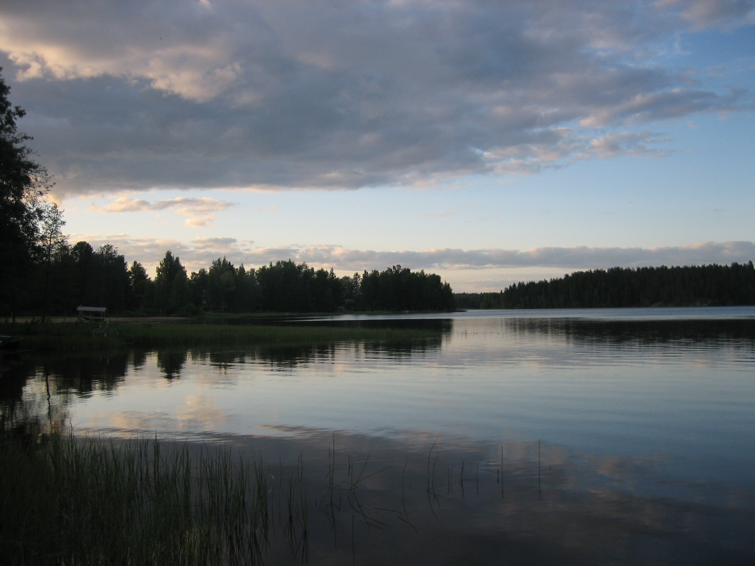 Lake Keijärvi in Ylöjärvi, Finland at evening.